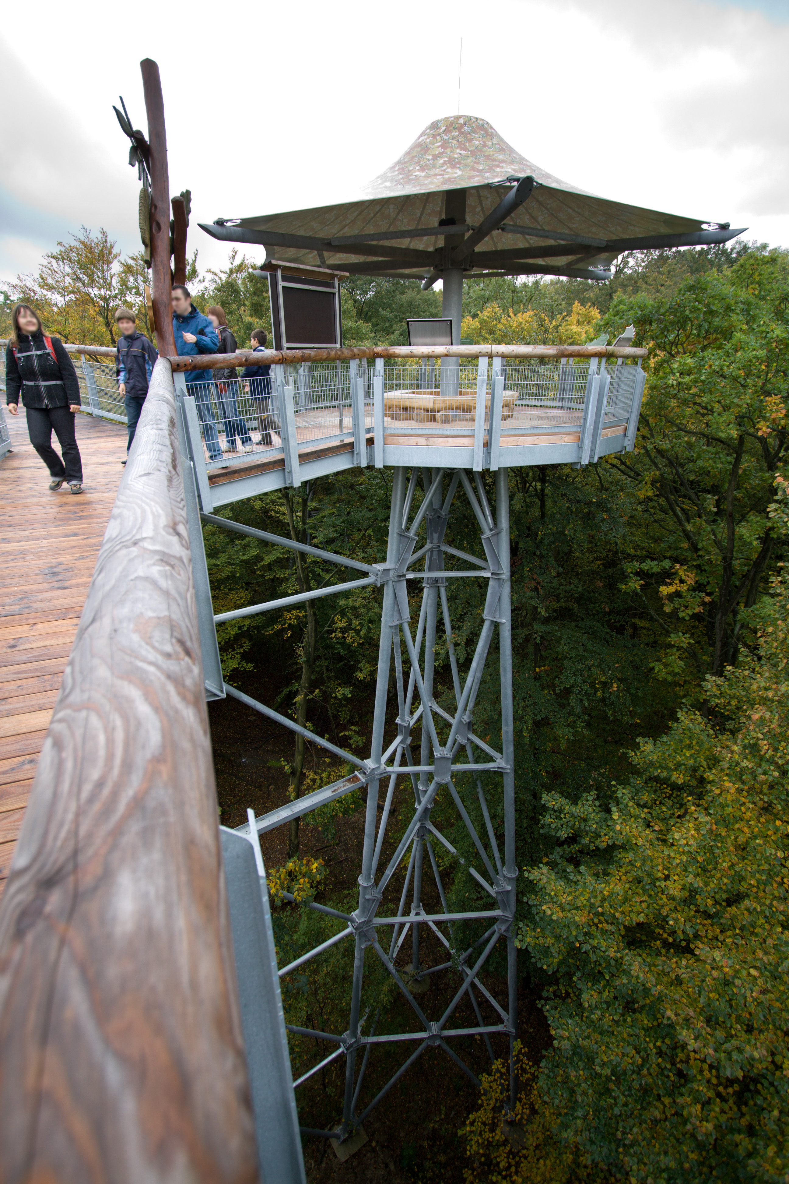 Platform of the Baumkronenpfad Hainich with its foot